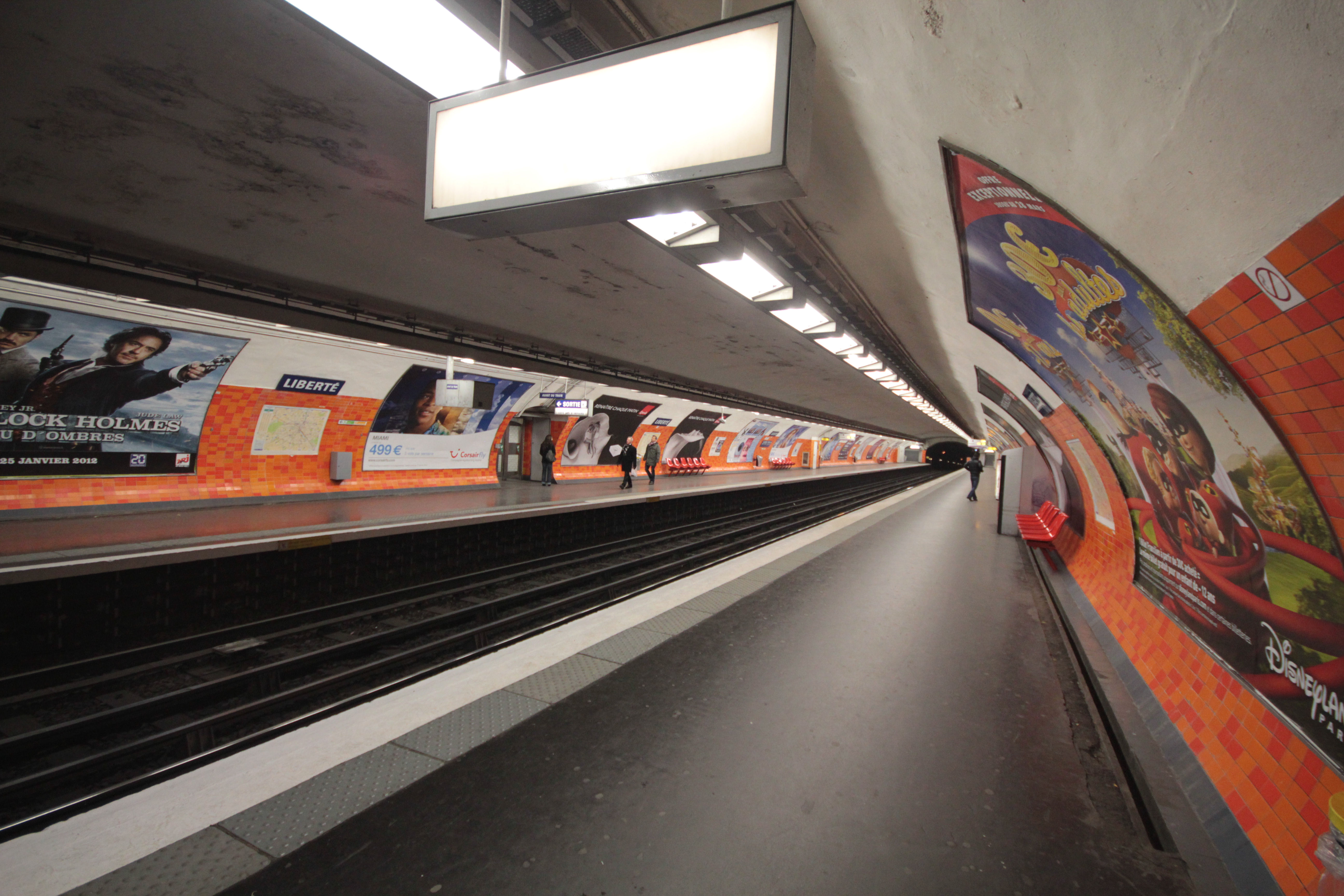 Metro station Liberté on Parisian metro line 8